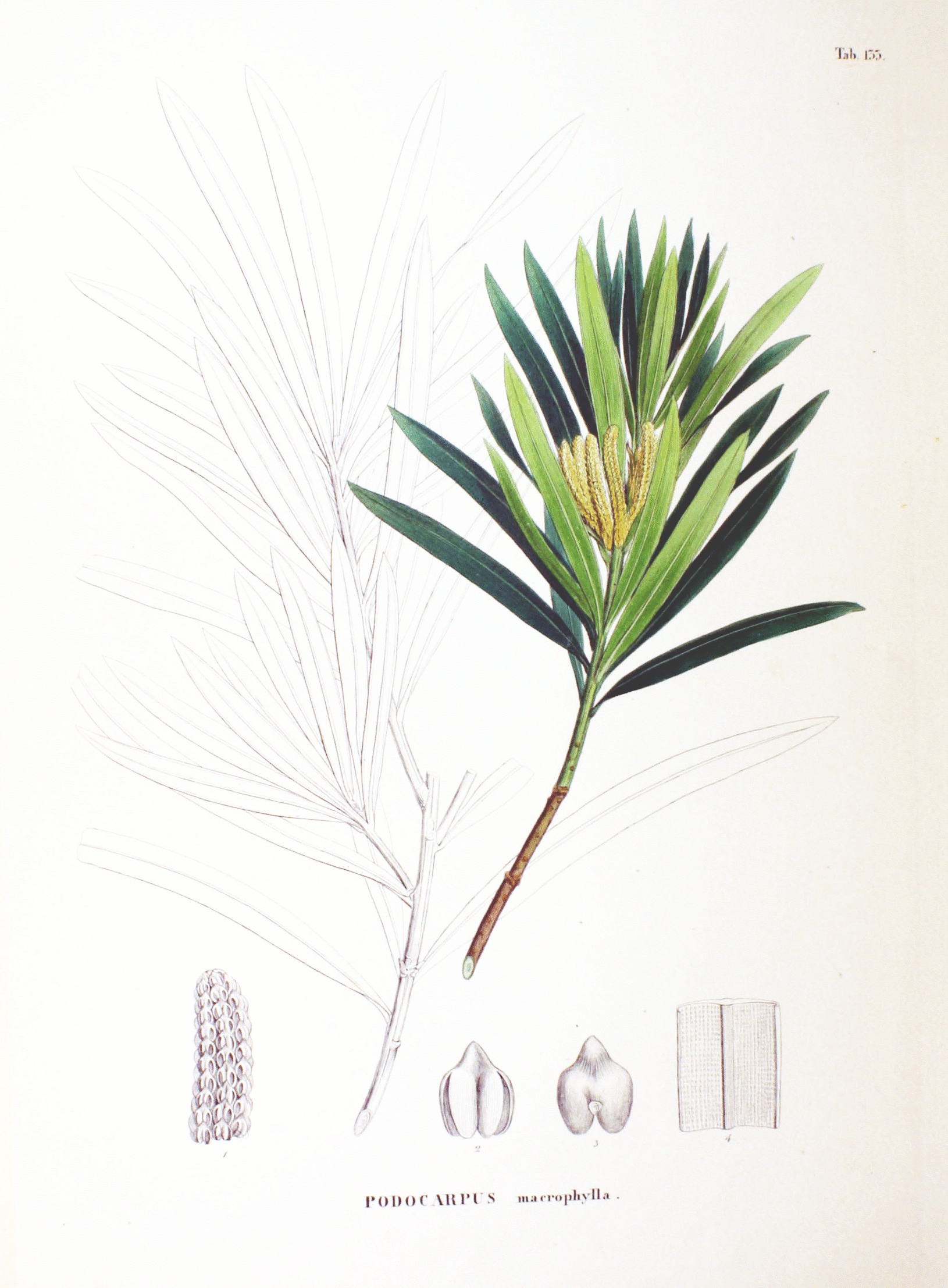 Plate from book